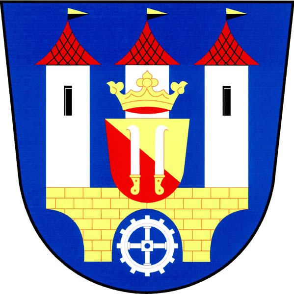 Municipal coat of arms of Věžnice village, Havlíčkův Brod District, Czech Republic.